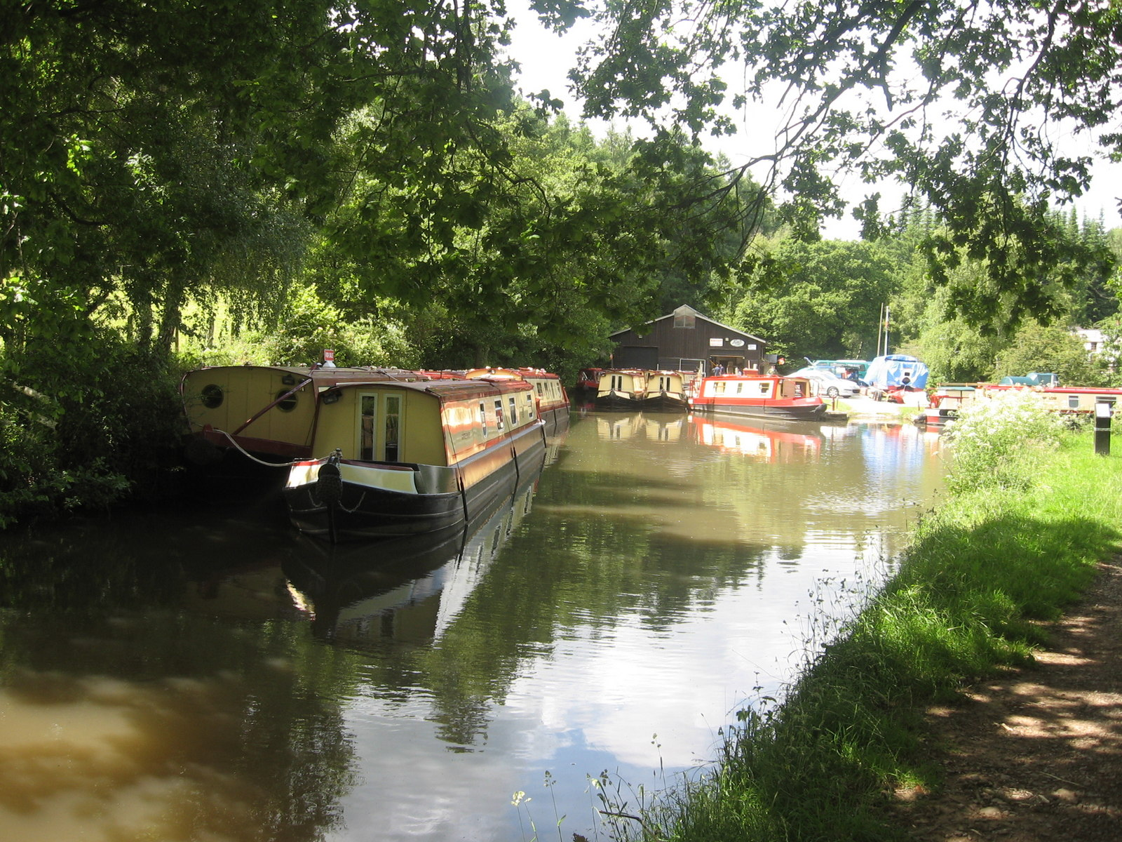 Goytre Wharf Reflections Boats and trees reflecting in the Monmouthshire and Brecon Canal at Goytre Wharf. All the boats for hire here are named after species of 'red' birds. Keywords: narrowboat, reflection, towpath, shadows